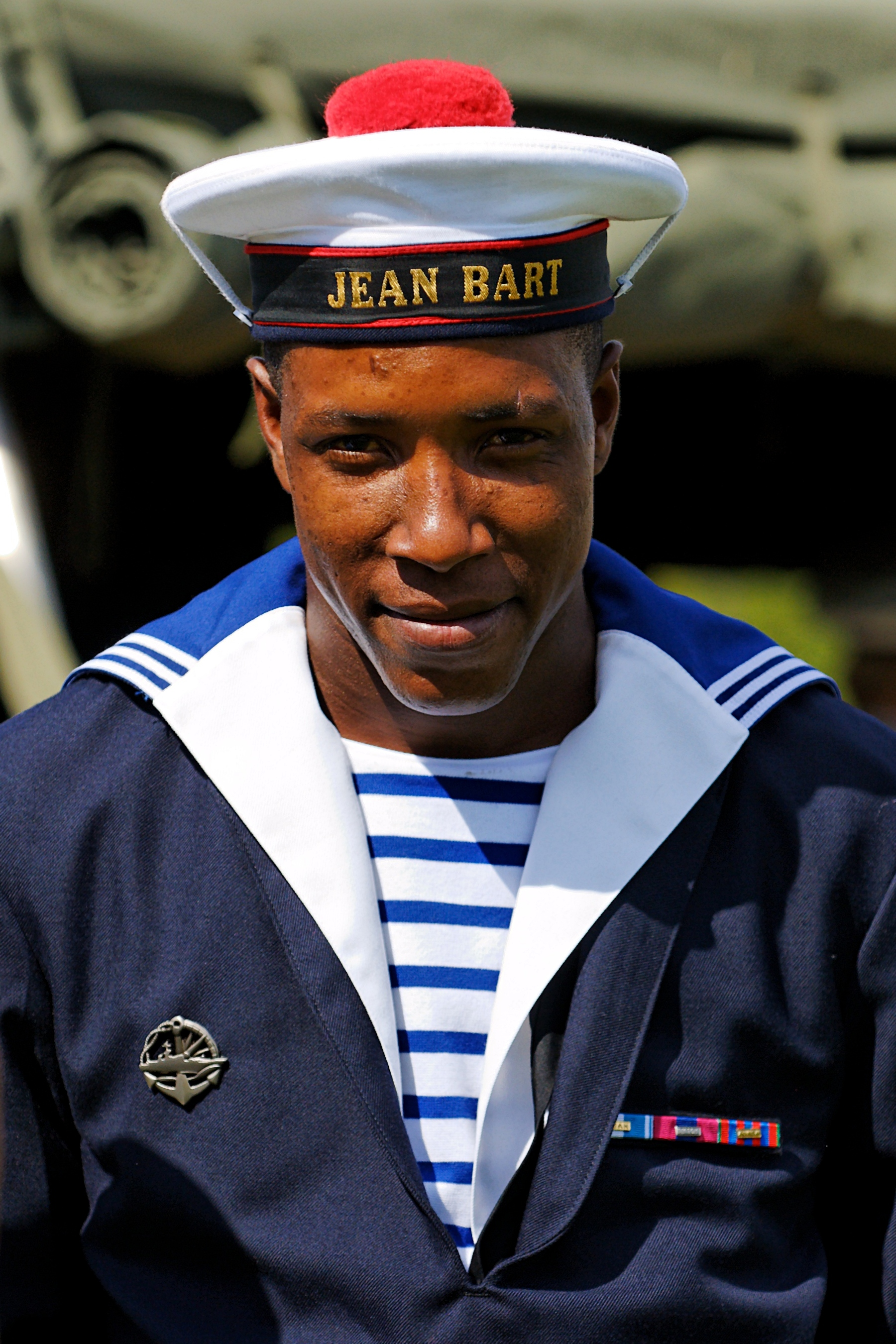 Seaman of the anti-air frigate Jean Bart during the celebrations of Bastille Day 2008 in Paris.